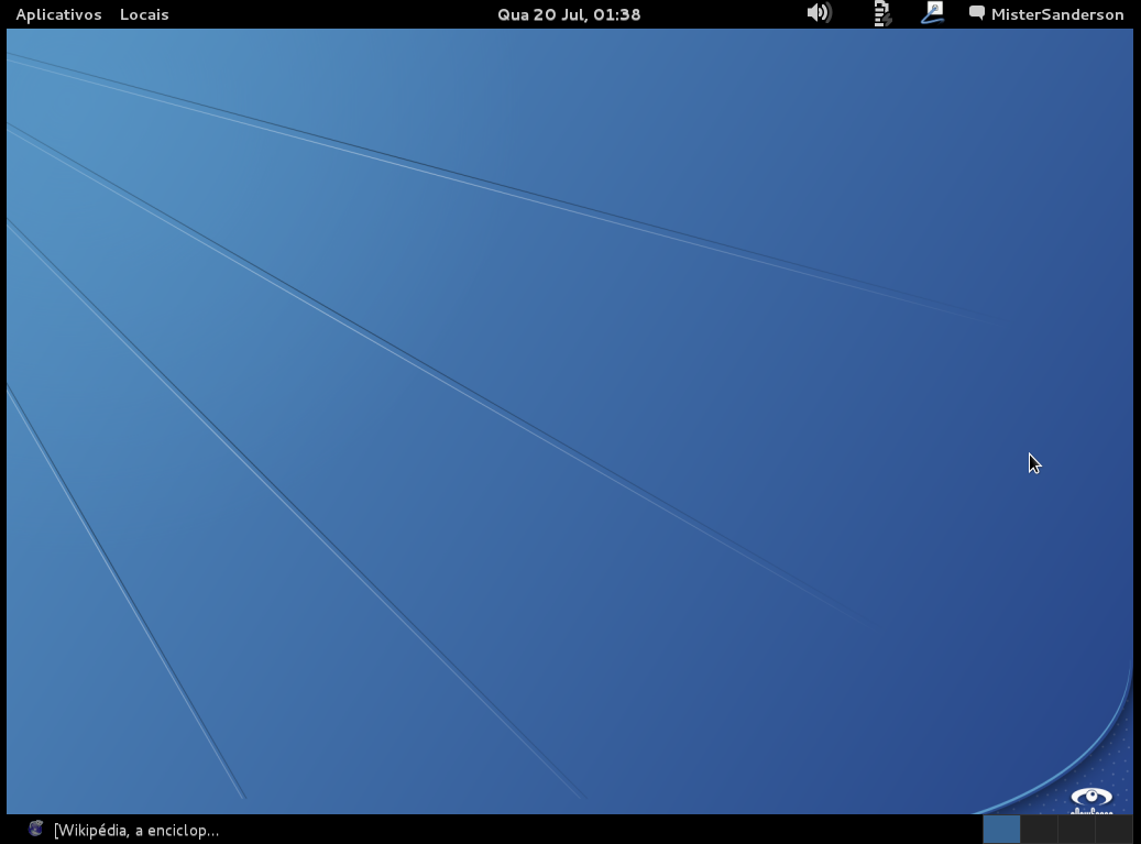 gNewSense 4.0 desktop.